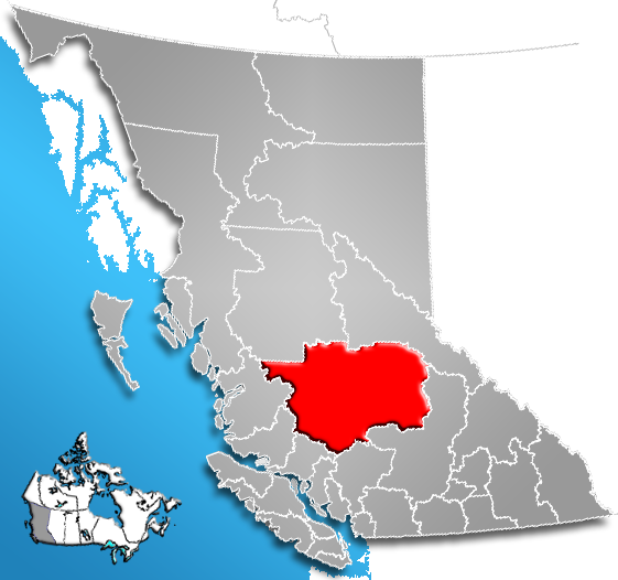 Location of Cariboo Regional District, British Columbia